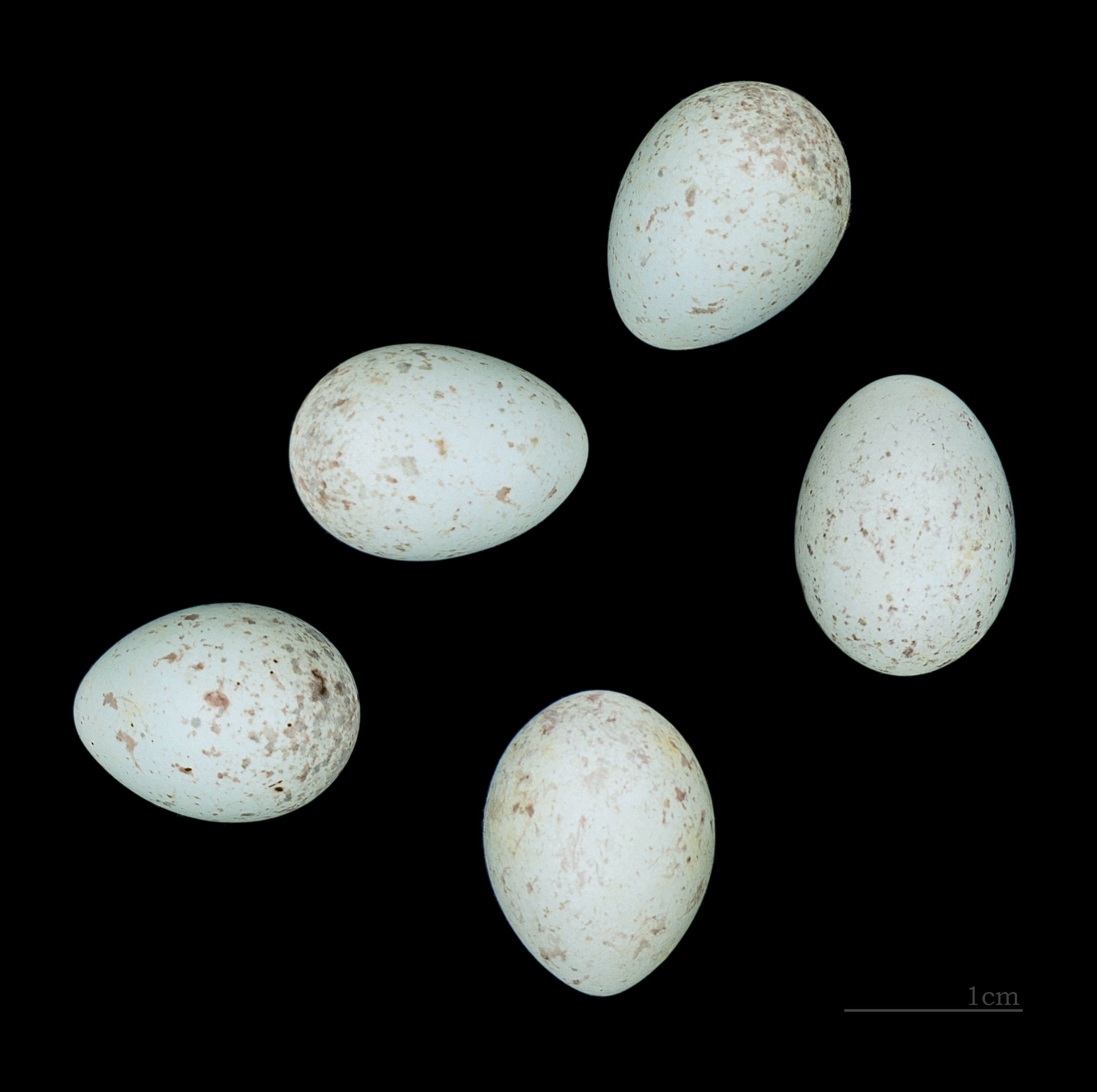 Egg of Common Redpoll. Collection of Perrin de Brichambaut.